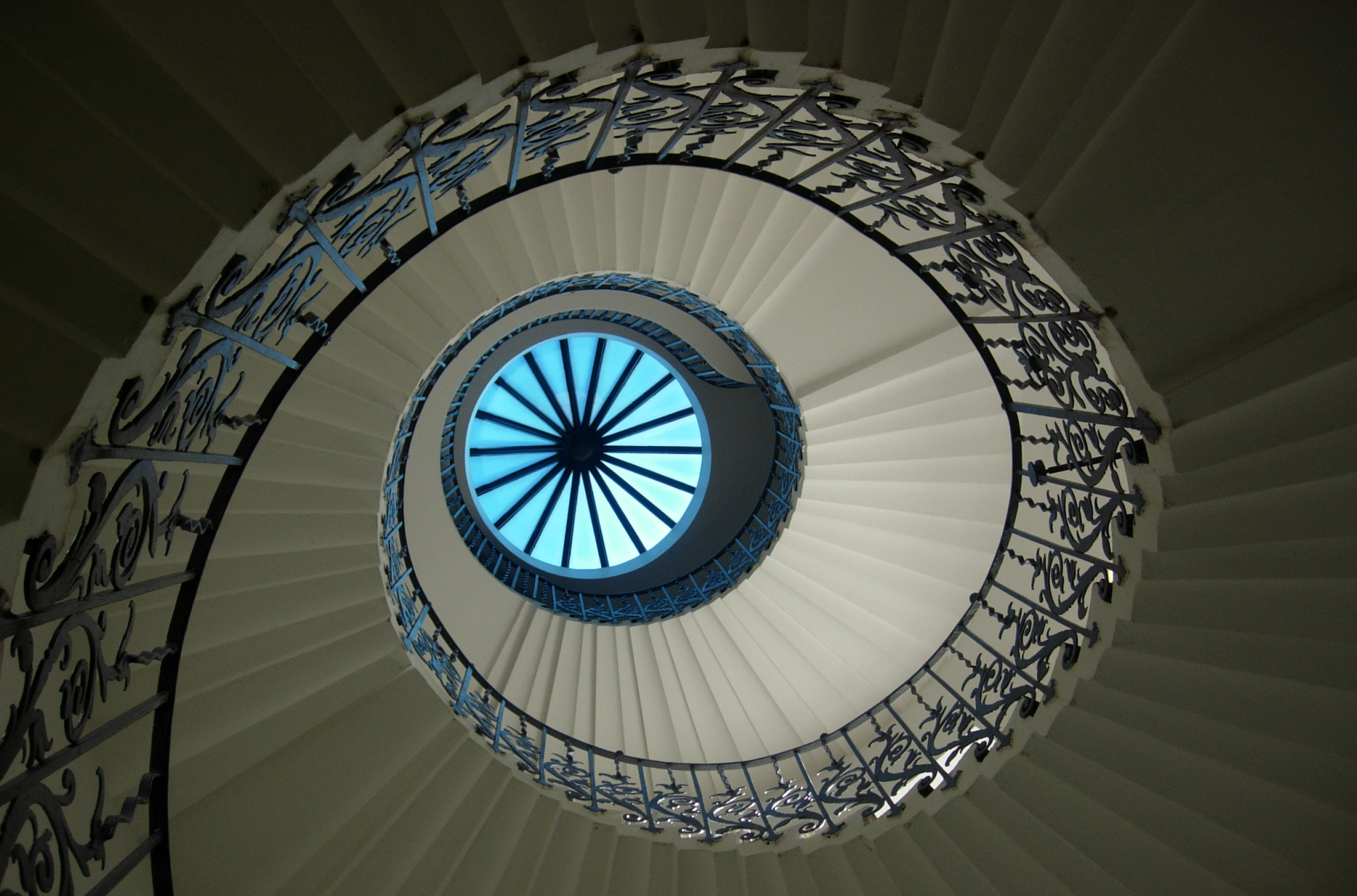 The Tulip Stairs — spiral stairs at the Queen's House, in Greenwich Park, London.